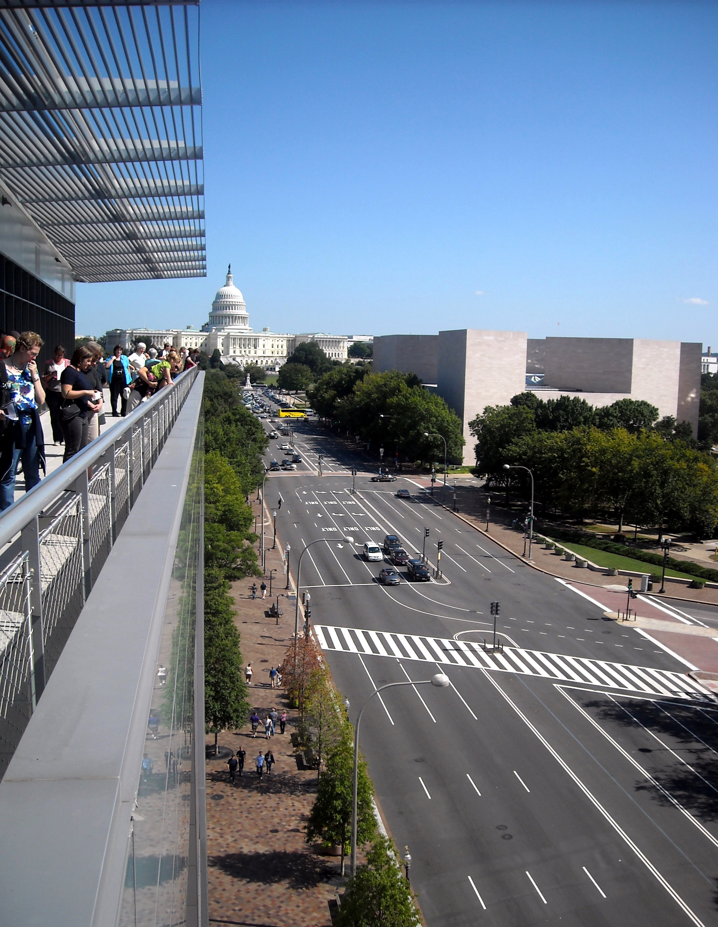 People standing on the Newseum's Hank Greenspun Terrace, which overlooks Pennsylvania Avenue and the National Mall in Washington, D.C. The United States Capitol and the East Building of the National Gallery of Art are visible in the background.